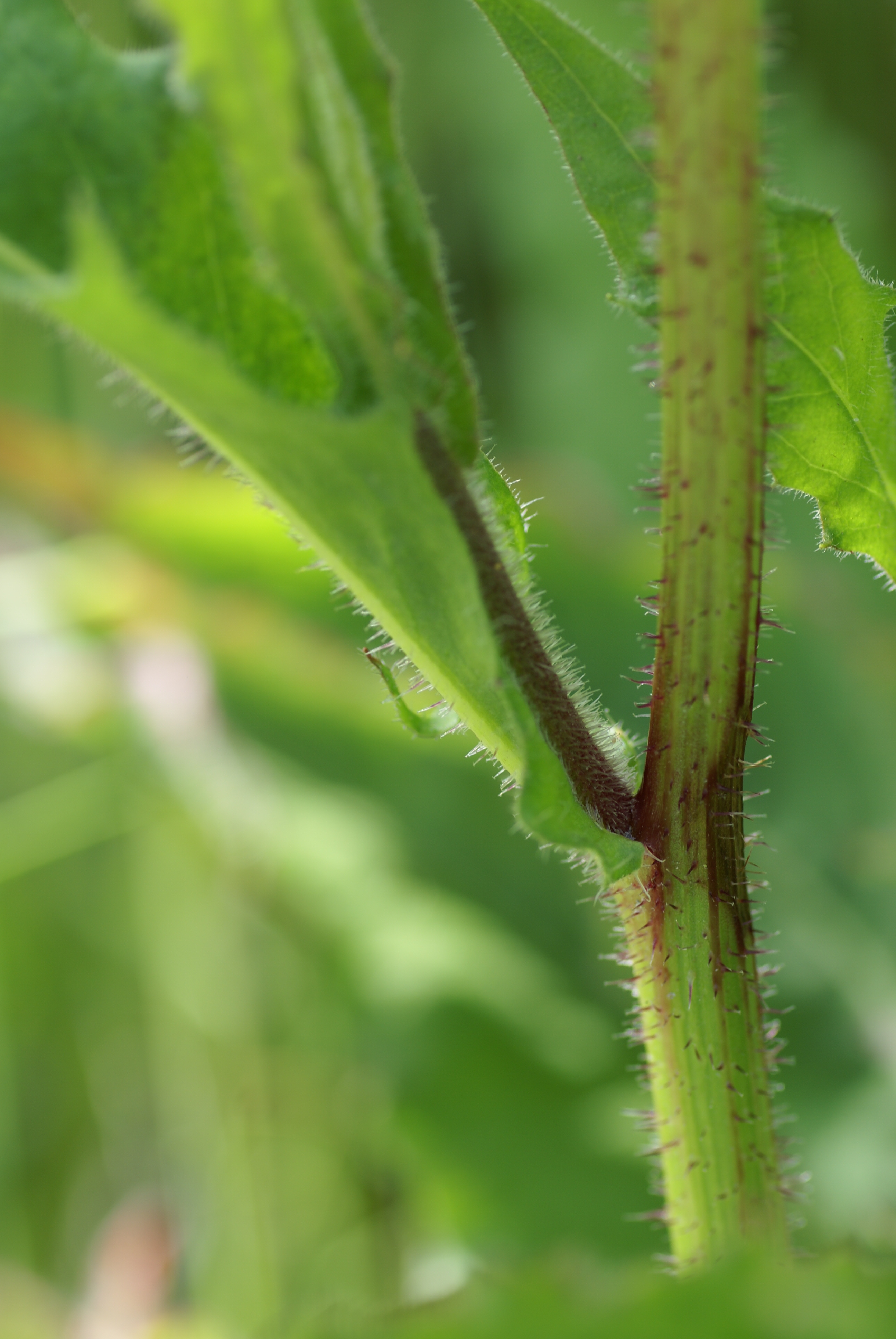 Plant species Picris hieracioides near Skokloster castle, north of Stockholm, Sweden